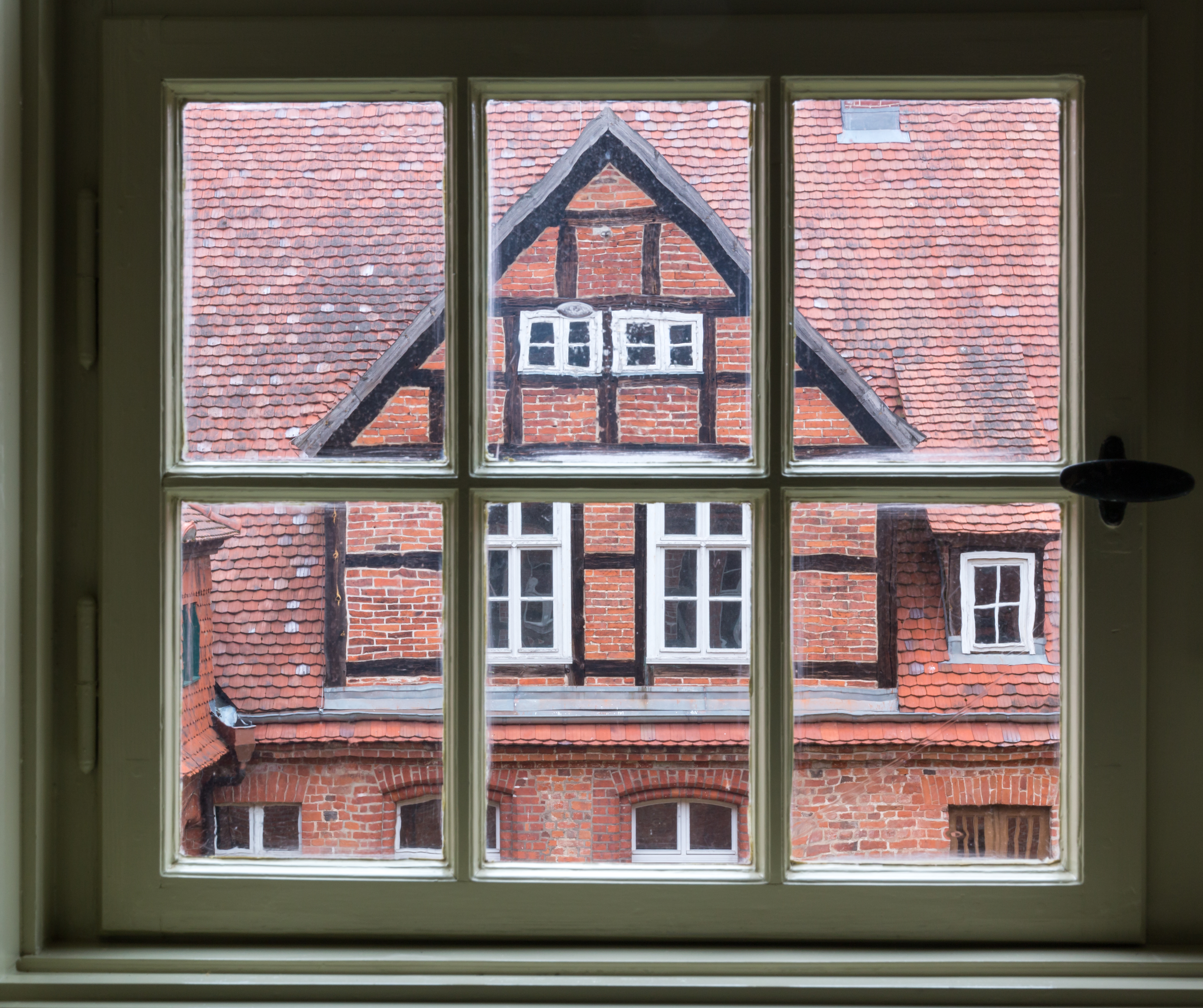 Interior of the Abbey, Monastery Endowment of the Holy Grave, Heiligengrabe, Brandenburg, Germany